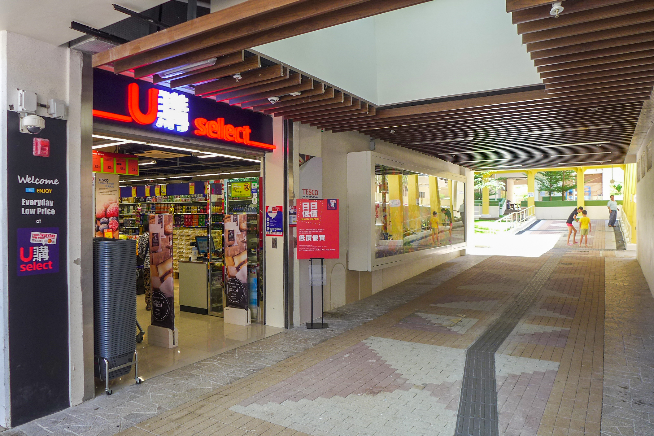 Long Shin Estate Shopping Centre